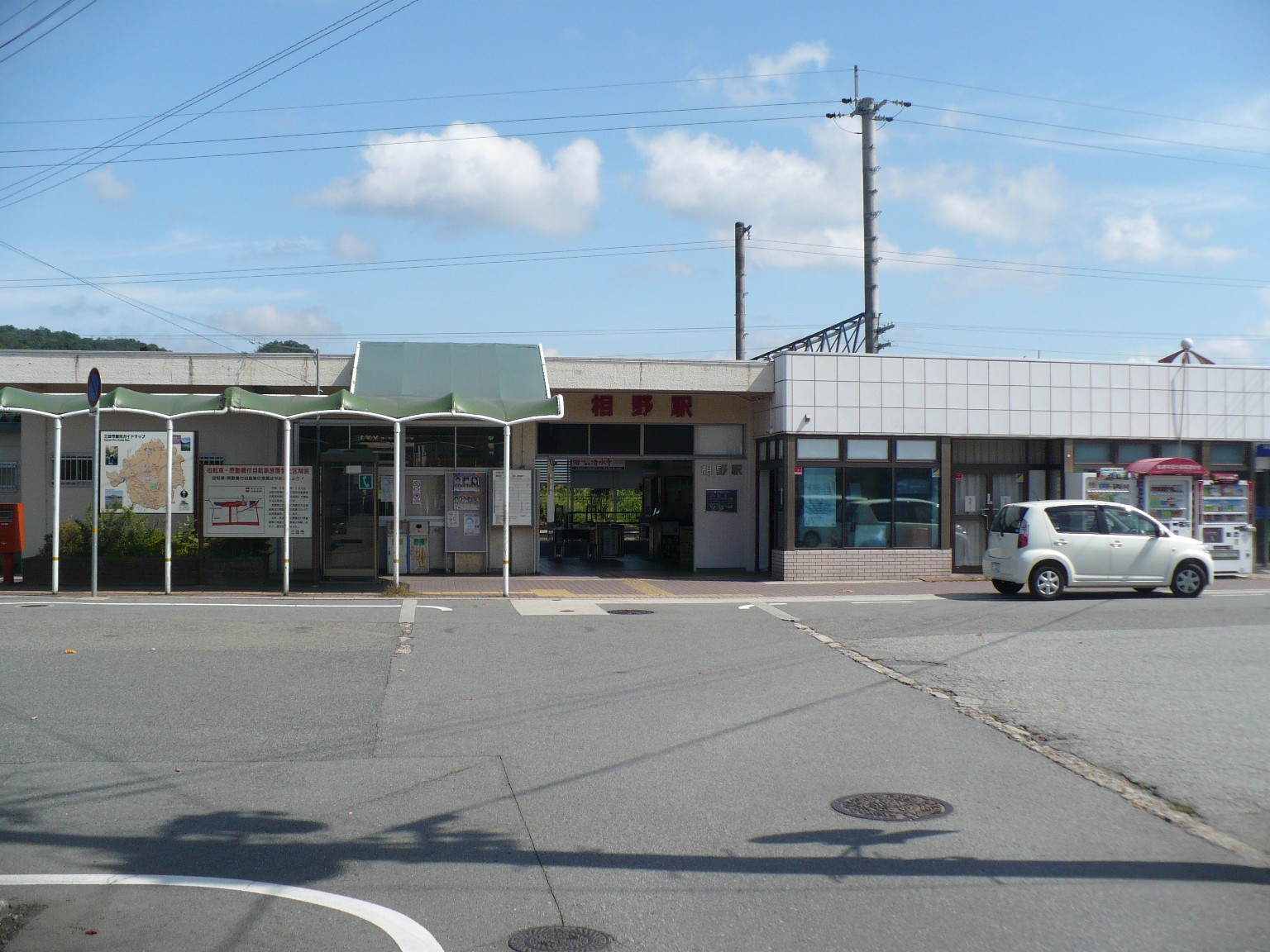 Frontview of Aino station of JR West Fukuchiyama line, Sanda, Hyogo, Japan.